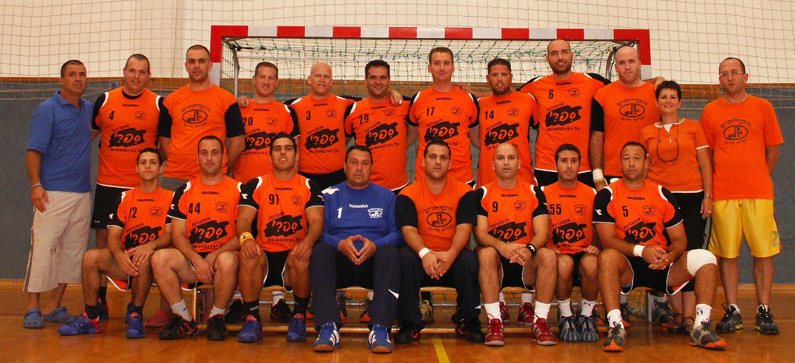 hakiryatim team photo - 2007/8 season תמונה קבוצת של קבוצת הקרייתים בעונת 2007/8